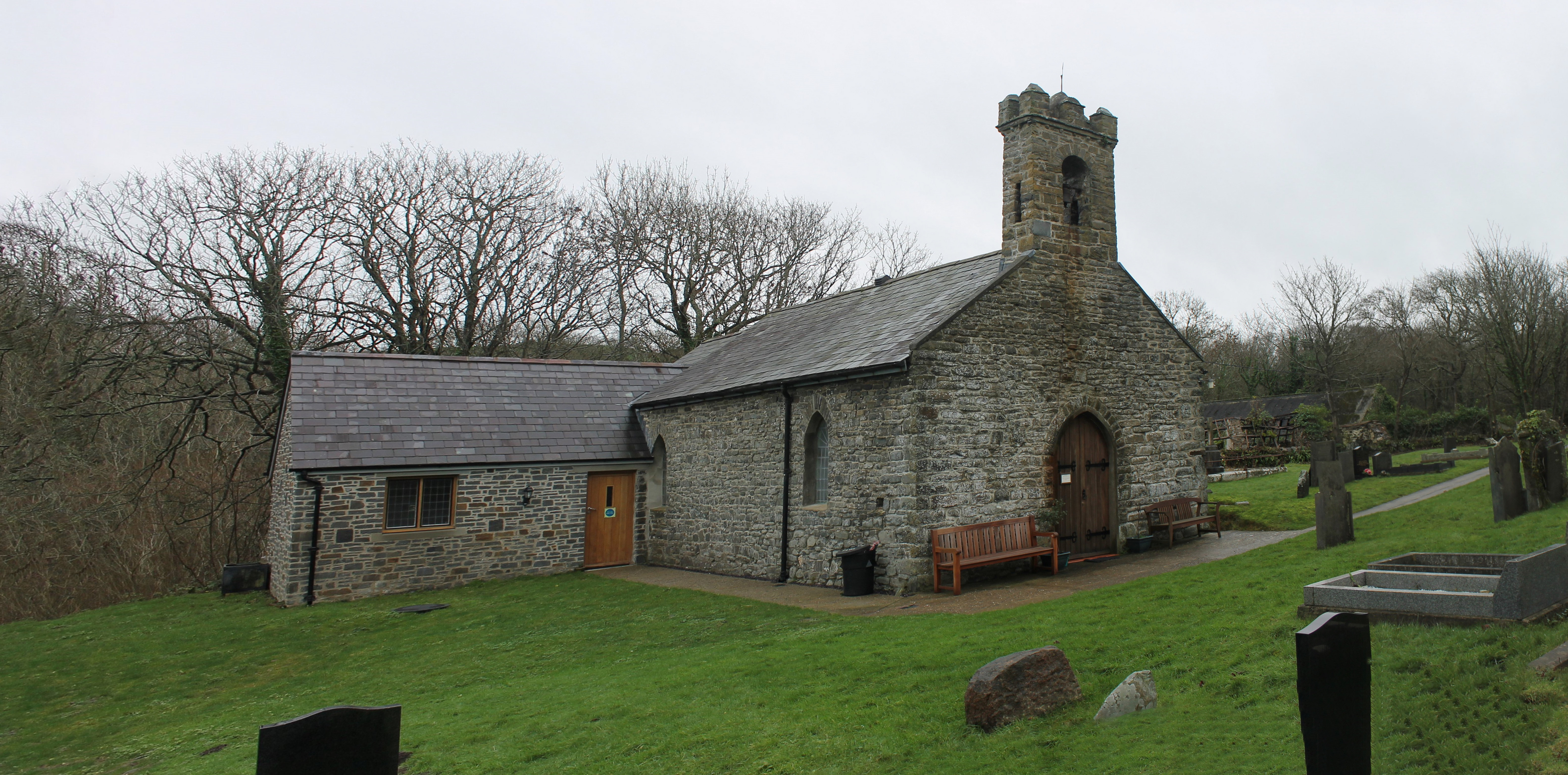 The church of Llanina, near Ceinewydd (New Quay), Ceredigion.